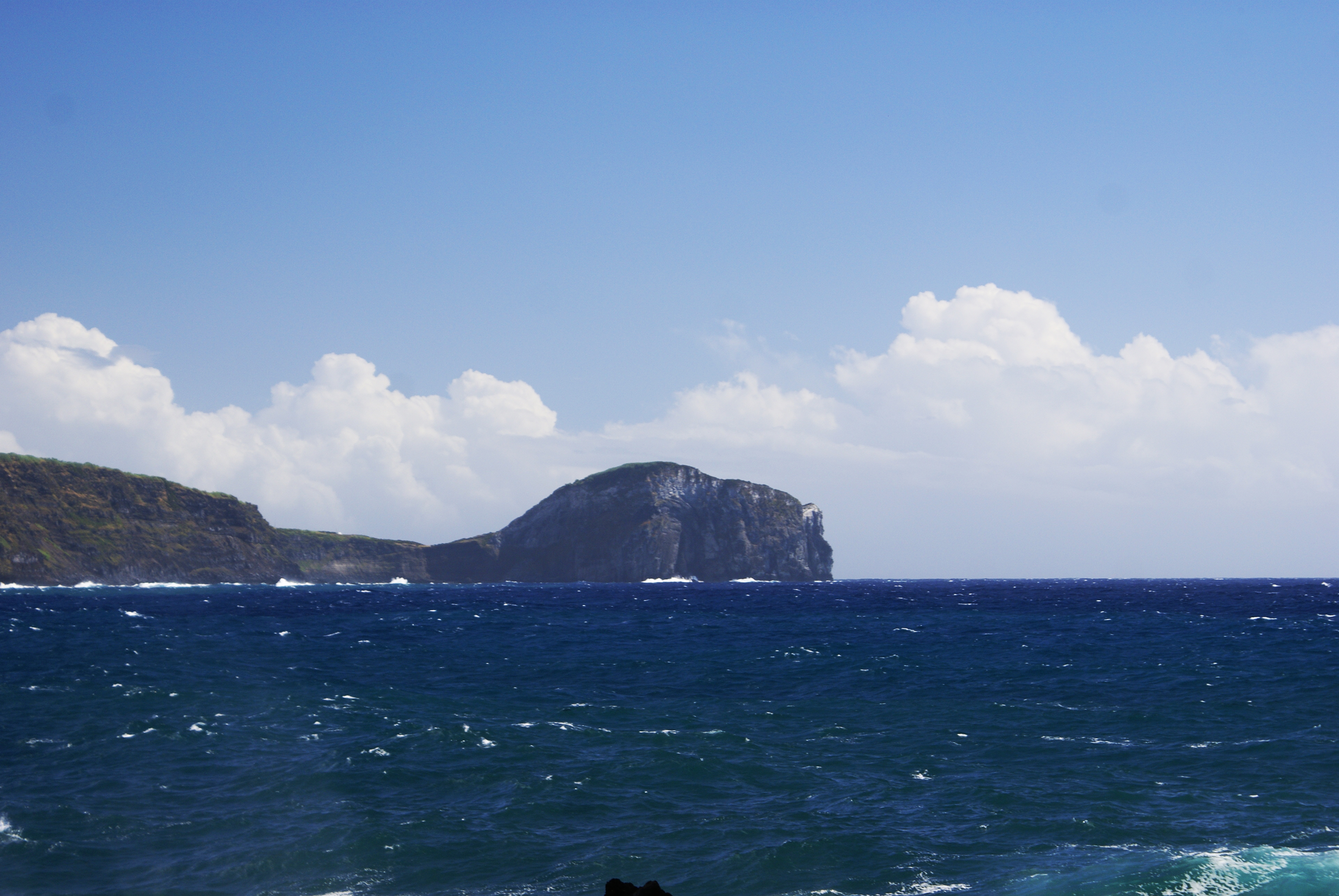 Monte de Castelo Branco, visto do Varadouro, concelho da Horta, ilha do Faial, Açores, Portugal